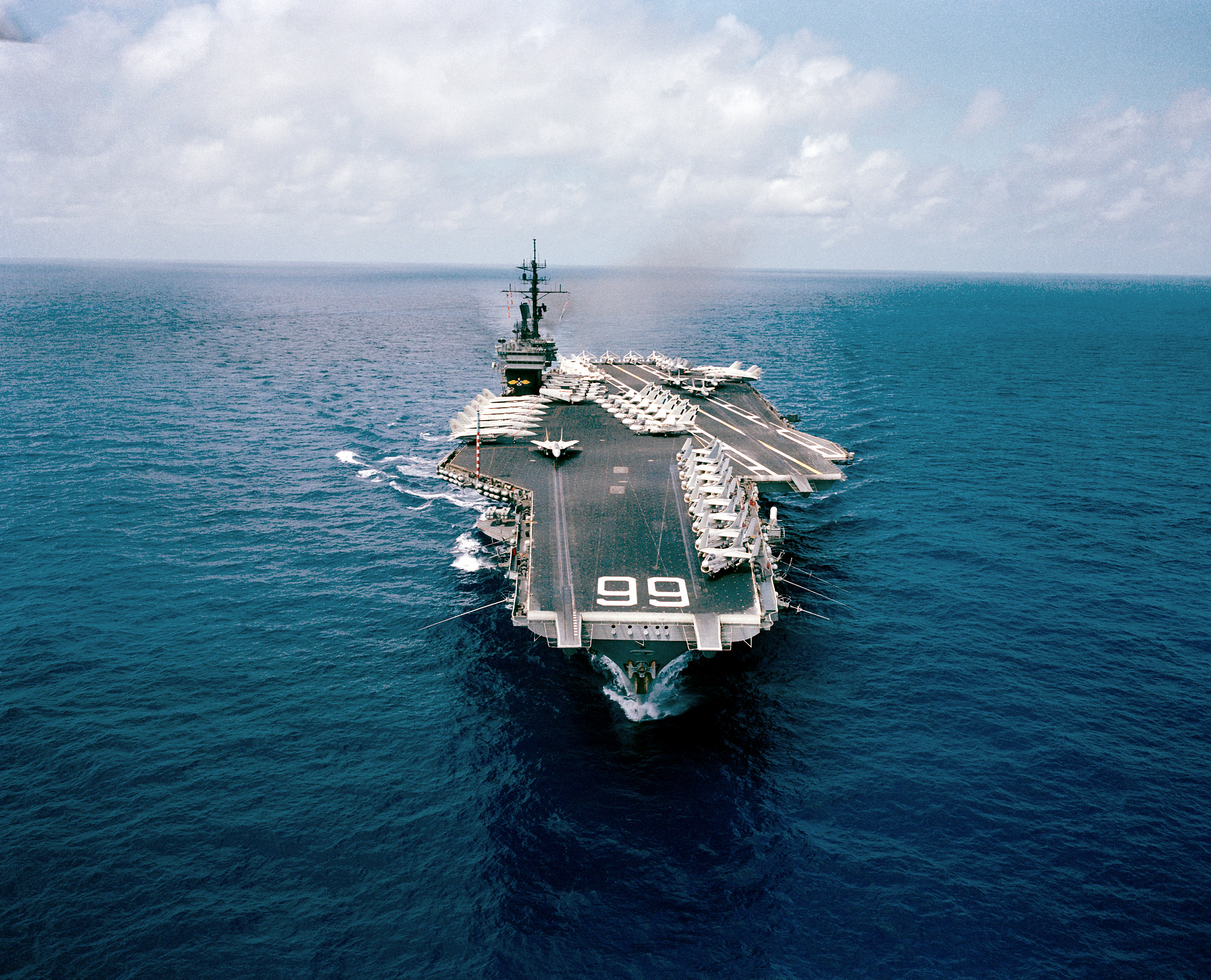 An aerial bow view of the aircraft carrier USS AMERICA (CV-66) underway.